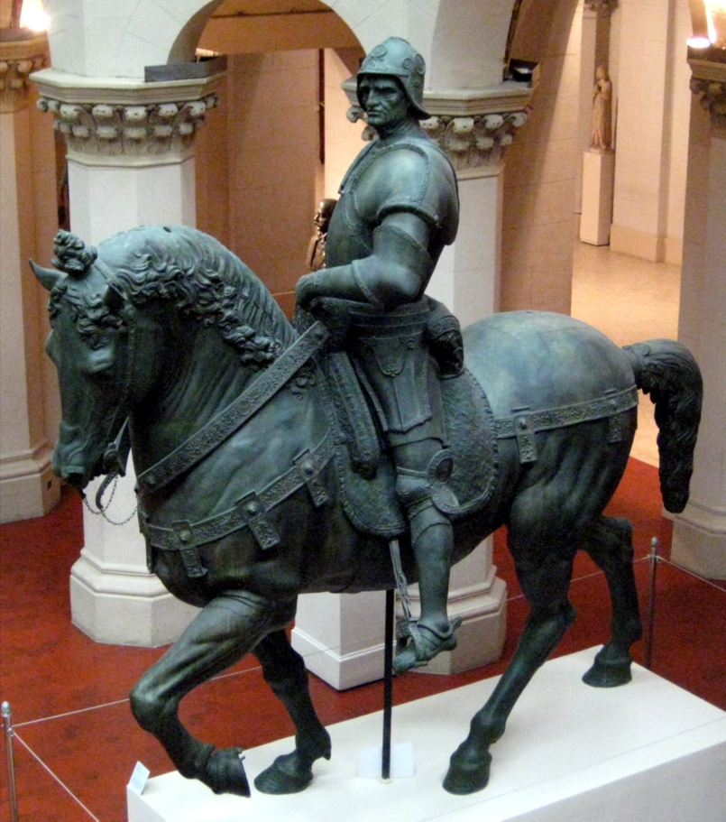 Monument to Colleoni. Cast, miniature copy, Pushkin museum